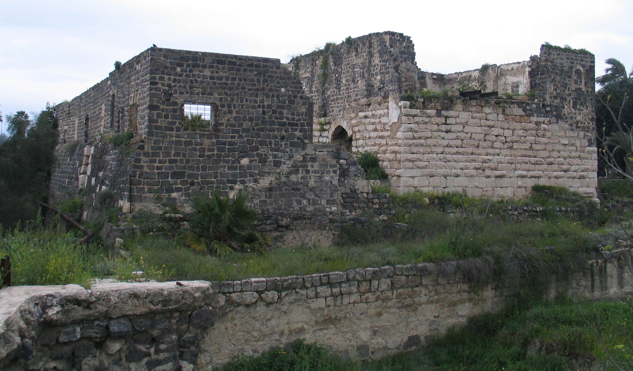 The "Old Saray" (incorporating a crusader fortress), Beyt Shean, Israel.